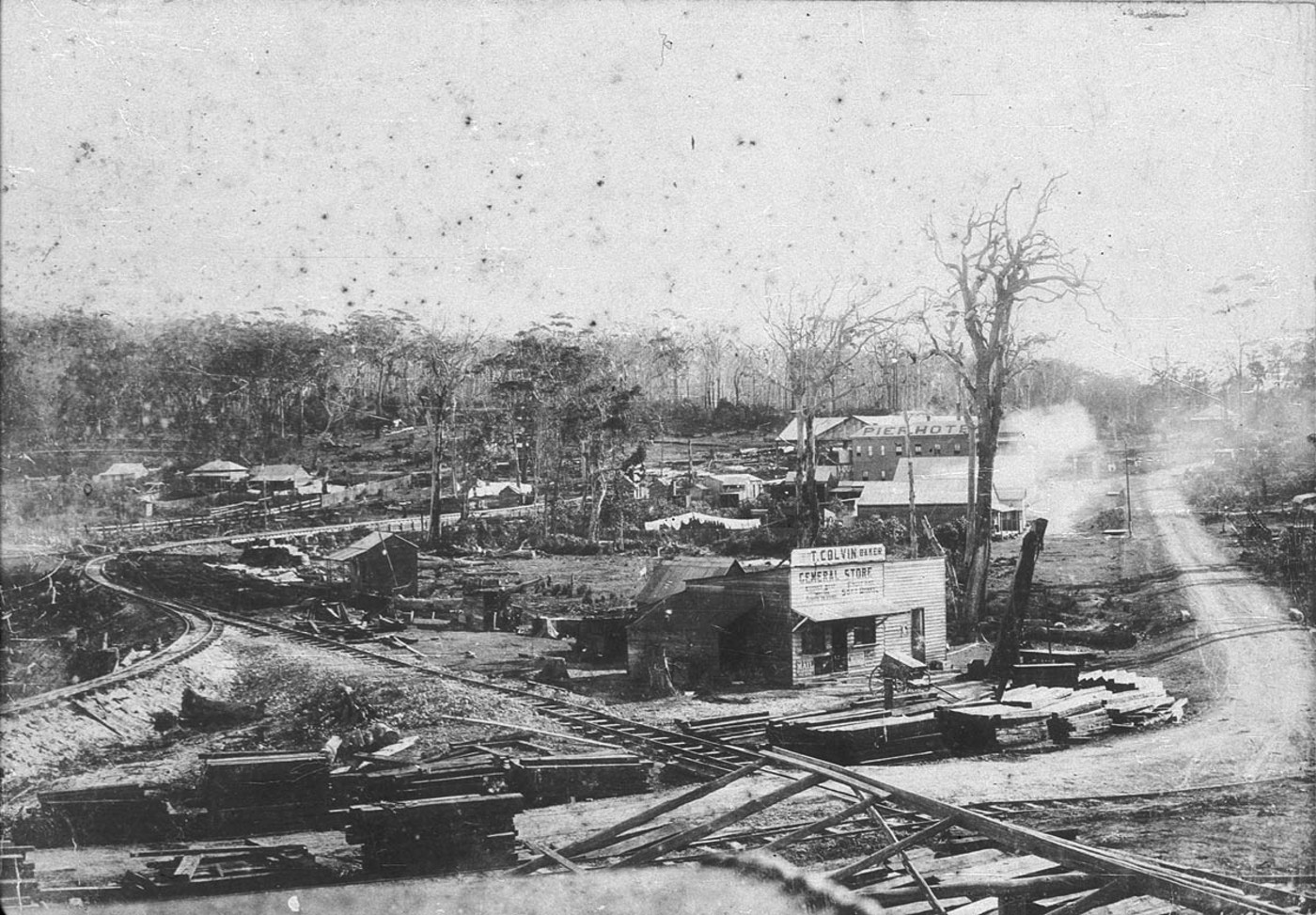 Tramline from British Australian Timber Company's Mill to a) Jetty, b) Bruxner Park - Coffs Harbour, NSW Call number: At Work and Play - 01684 Reference code: 389731 General note Tom Colvin, baker and shopkeeper, Mrs Colvin, midwife Pier Hotel, Tom Colvin's General Store Digital order bcp_01684 Original item no. BCP 01684